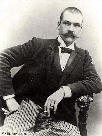 Akseli Gallen-Kallela (1865—1931), a finish painter